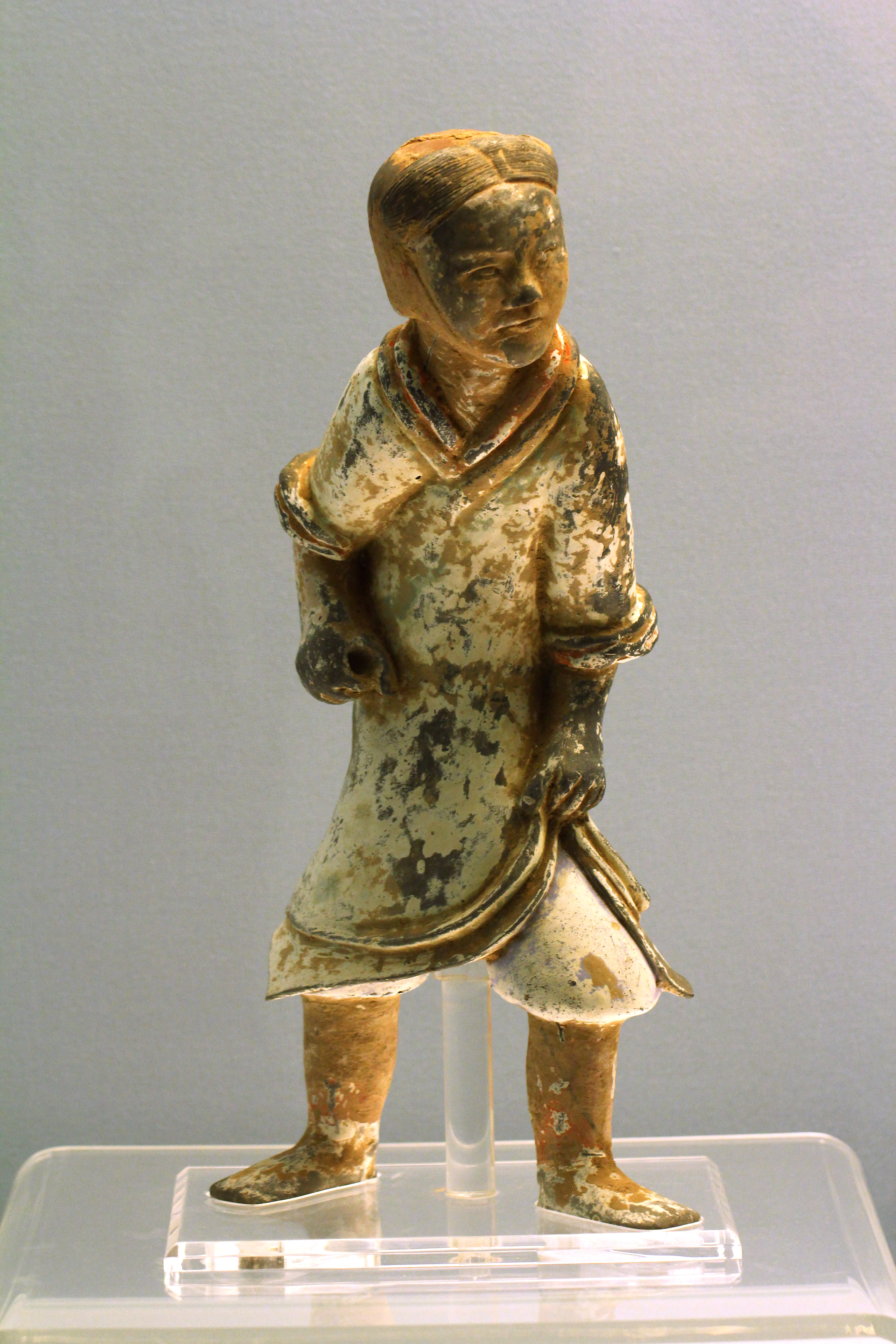 Coloured pottery figurine. Eastern Han, A.D. 25-220.